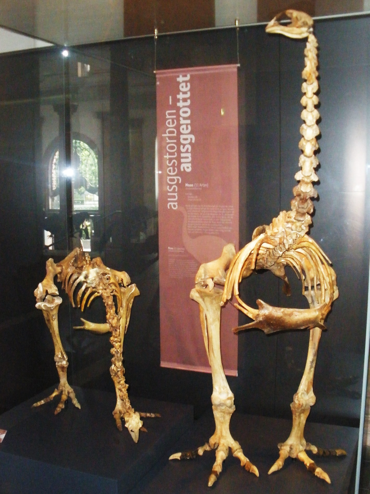 Skeletons of moas at the Senckenberg Museum of Frankfurt. The banner reads ausgestorben (‘extinct’) and ausgerottet (‘exterminated’).